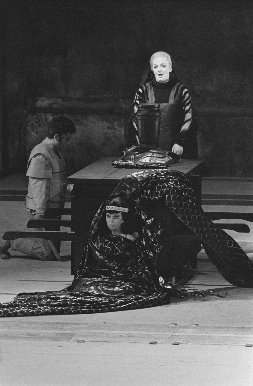 German contralto Annelies Burmeister (top) as Cornelia in Händel's "Giulio Cesare in Egitto", Berlin, 1970. With Sylvia Geszty as Cleopatra in the foreground, and Peter Schreier as Sextus (Sesto) at left. Pisarek, Abraham: Scenes from "Julius Caesar", Musical drama in three acts by Georg Friedrich Händel with text by Nicola Francesco Haym. German State Opera Berlin, dress rehearsal 07.05.1970 and premiere 09.05.1970, 1970.05.07 / 1970.05.09 Series: Julius Caesar Description: With Theo Adam in the title role, Peter Schreier as Sextus, Sylvia Geszty as Cleopatra and others PERSONS AND CORPORATIONS: Presentation: German State Opera Berlin LOCATION: Performance Location: Berlin Add to Favorites PERMALINK: Author of the metadata: German Photo Library